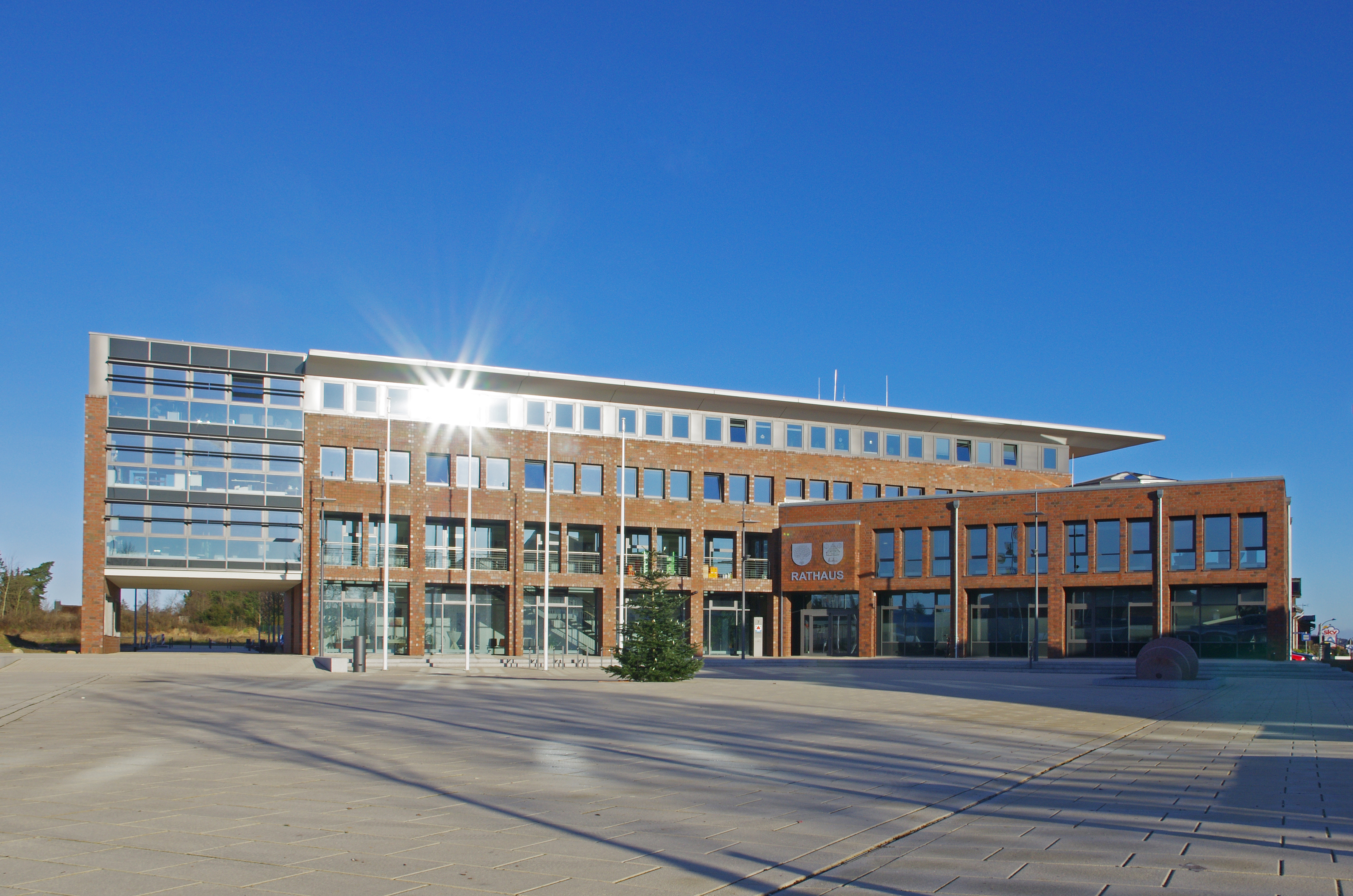 Townhall of the community and parish Bordesholm, Schleswig-Holstein, Germany